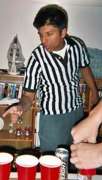 A referee making a call during beer pong a game.